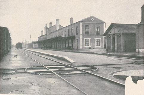 Entroncamento train station, in Portugal, totally deserted during the railway workers strike in January 1914. This image was published on the Ilustração Portuguesa magazine No. 414, of the 26th January 1914, and scanned by the Hemeroteca Municipal de Lisboa.